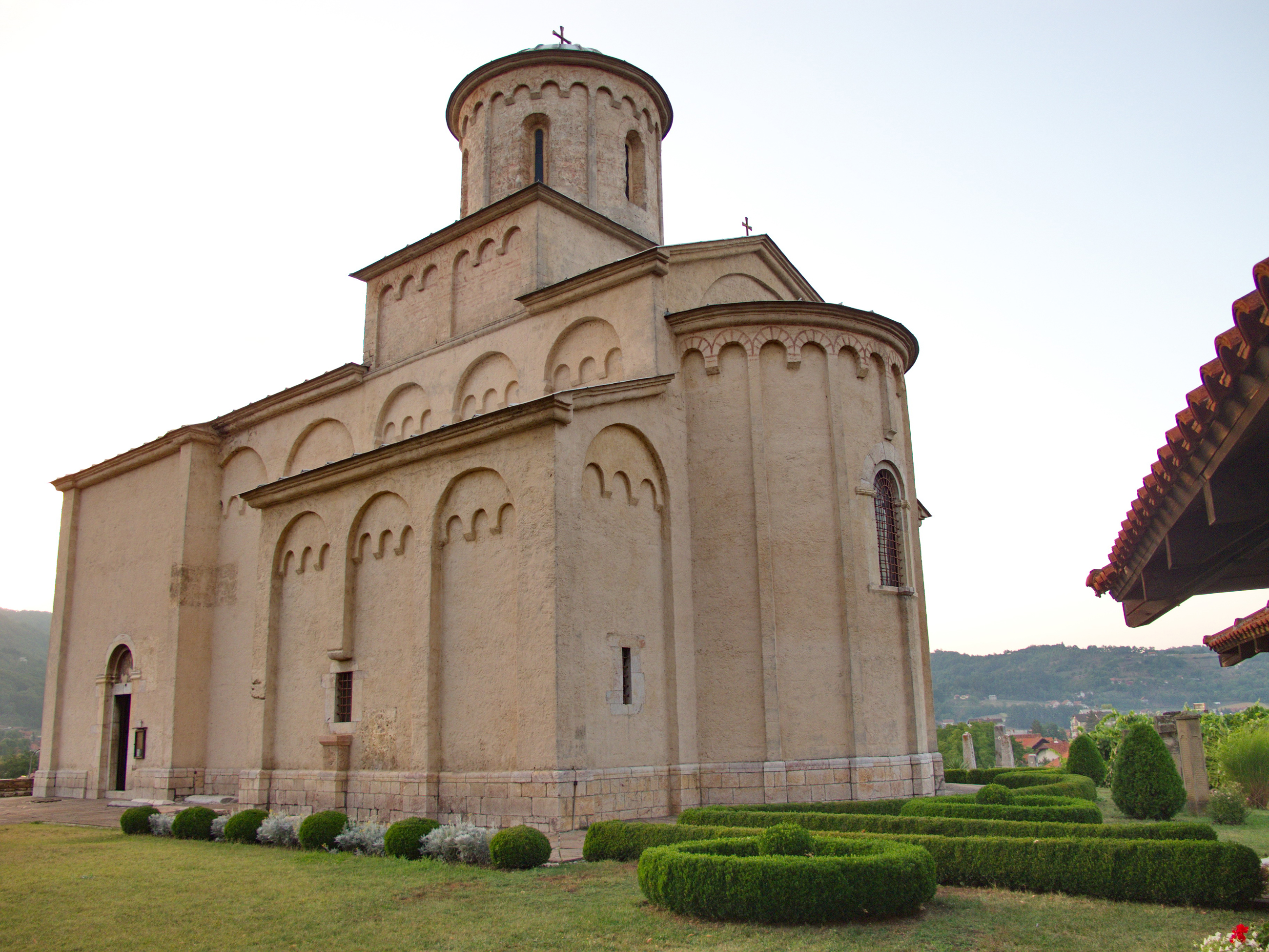 Crkva Svetog Ahilija je smeštena na uzvišenju u središtu današnjeg Arilja i zadužbina je kralja Dragutina (kralj Srbije 1276 — 1282, kralj Srema 1282—1316) sa kraja XIII veka. Ima osnovu jednobrodne građevine sa narteksom i egzonarteksom, a podignuta je u Raškom stilu, u kome jedinstvena po svojim vitkim, izduženim proprocijama i fasadama raščlanjenim pilastrima i slepim arkadama. Izrada freskopisa je završena 1296. godine i izrađen je tradicijama monumentalnog stila srpskog freskoslikarstva XIII veka, a u njemu se ističu portreti samog Dragutina, zatim njegove supruge Kataline i njihovih sinova (Urošic i Vladislav), kao i njegovog brata, kralja Milutina (1282—1321).